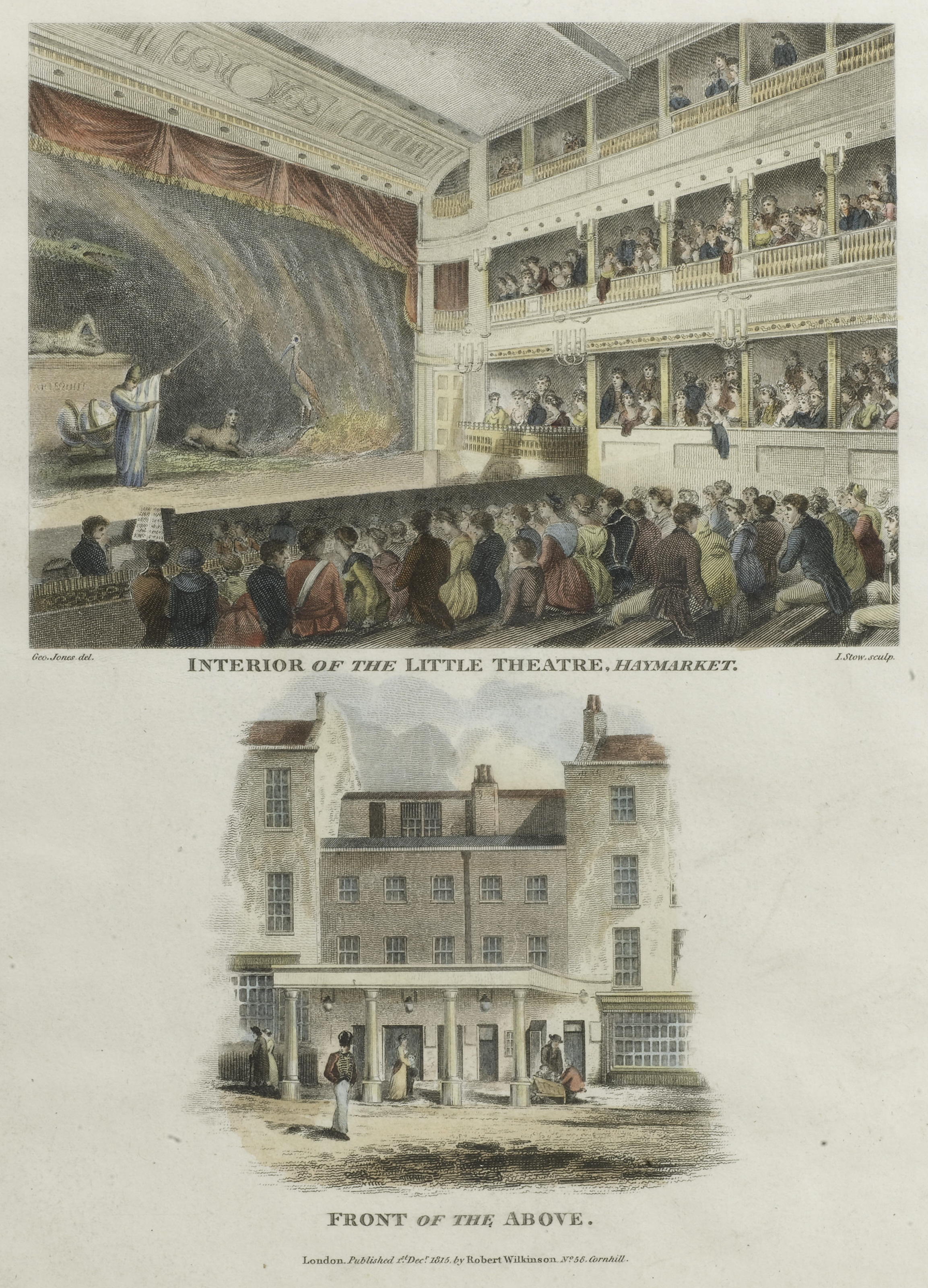 Interior of the Little Theatre, Haymarket; Engraving with handcolouring, by Stow, from a series, published by Robert Wilkinson, 1815; 30.0 x 22.0 cm